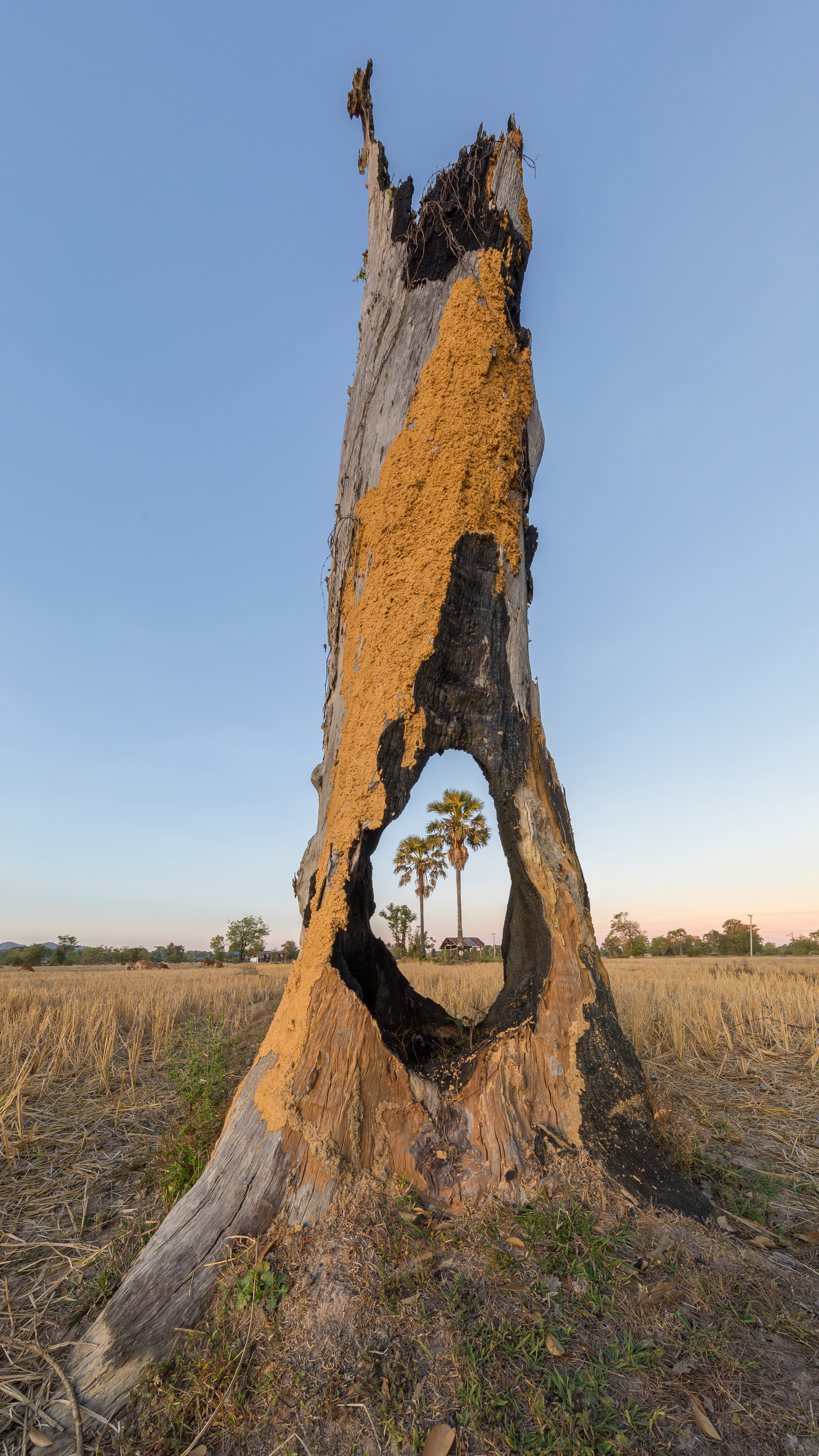 Two Arecaceae (palm trees) in the fields viewed through a hole in a tree stump damaged by fire in Don Tao (Si Phan Don, Laos), at sunrise. Impression of a natural organic frame or window highlighting the main subject of the landscape. Kind of Droste effect. Poetically this picture shows two healthy trees like a rebirth through the carcass of a third one in the foreground.